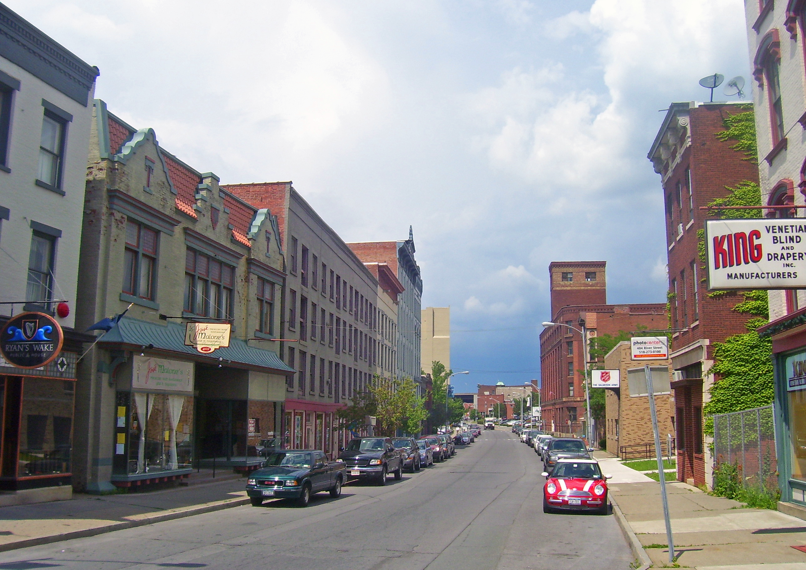 Nothern River Street Historic District, Troy, NY, USA